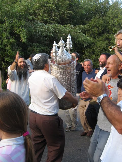 Religion in Israel